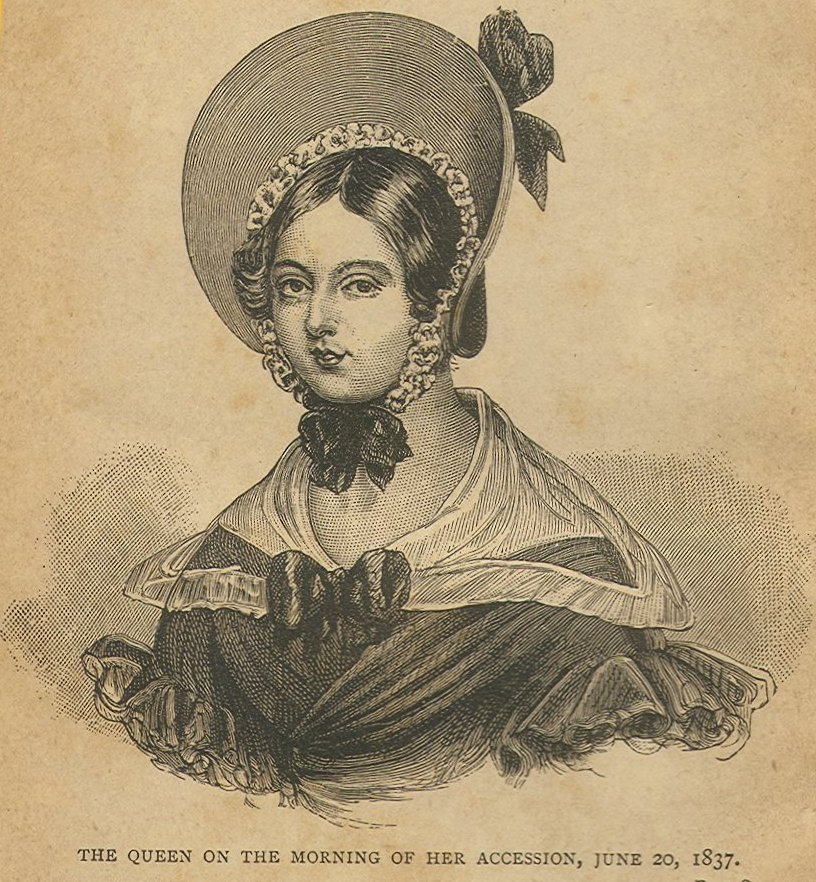 Victoria of the United Kingdom on the morning of her Accession to the Throne, June 20, 1837